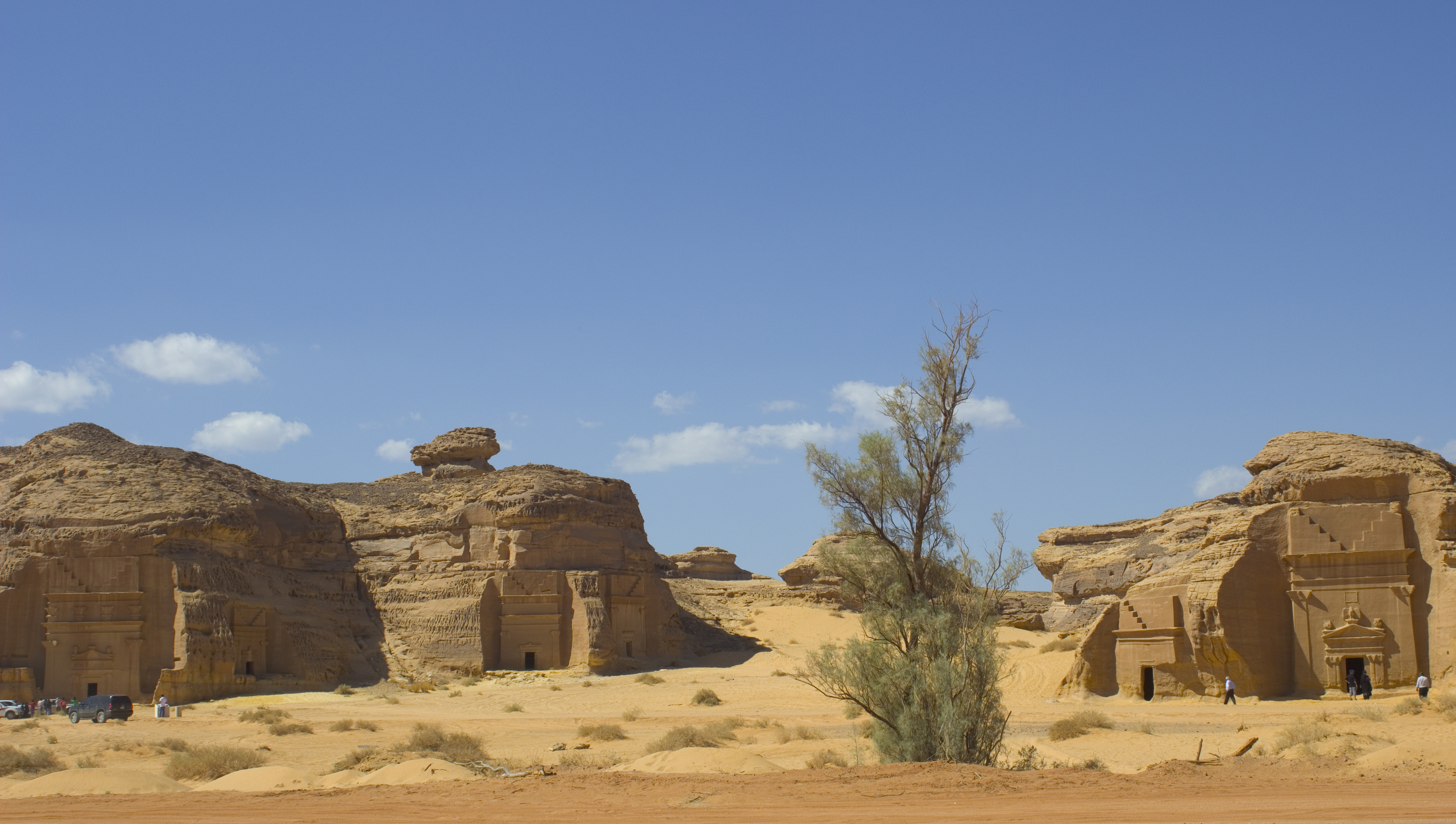 Mada'in Saleh, also called Al-Hijr or Hegra is an archaeological site located in the Al-Ula sector, within the Al Madinah Region of Saudi Arabia. A majority of the vestiges date from the Nabatean kingdom (1st century CE). The site constitutes the kingdom's southernmost and largest settlement after Petra, its capital. Traces of Lihyanite and Roman occupation before and after the Nabatean rule, respectively, can also be found in situ, while accounts from the Qur’an tell of an earlier settlement of the area by the tribe of Thamud in the 3rd millennium BC. According to the central Islamic text, the Thamudis, who would carve out homes in the mountains, were punished by Allah for their persistent practice of idol worship and for conspiring to kill she-camel (as mentioned in the Qur'an), the non-believers being struck by an earthquake and lightning blasts. Thus, the site has earned a reputation down to contemporary times as a cursed place— an image which the national government is attempting to overcome as it seeks to develop Mada'in Saleh, officially protected as an archaeological site since 1972, for its tourism potential. In 2008, for its well-preserved remains from late antiquity, especially the 131 rock-cut monumental tombs, with their elaborately ornamented façades, of the Nabatean kingdom,UNESCO proclaimed Mada'in Saleh as a site of patrimony, becoming Saudi Arabia's first World Heritage Site.